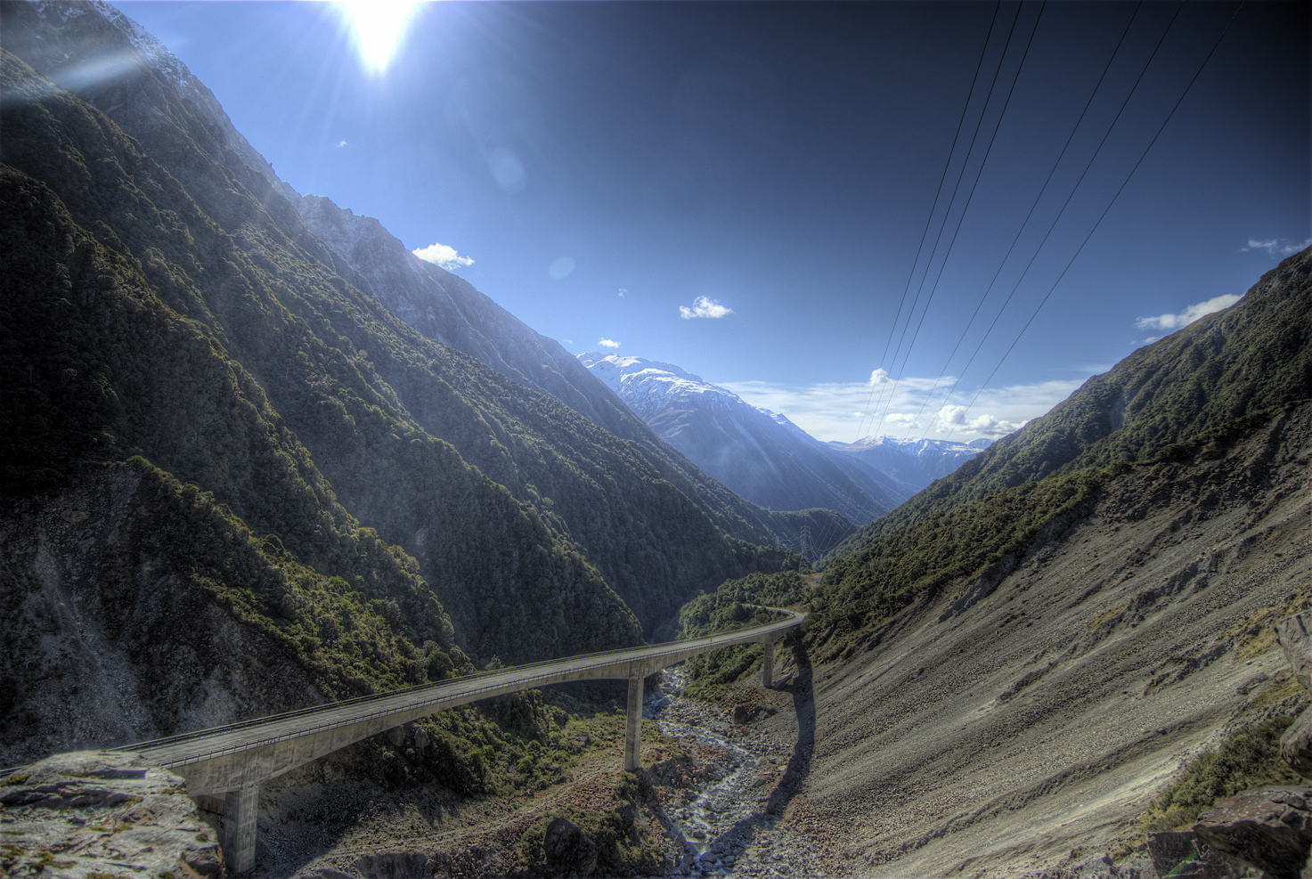 Otira Viaduct on State Highway 73 at Arthur's Pass. September 2007.